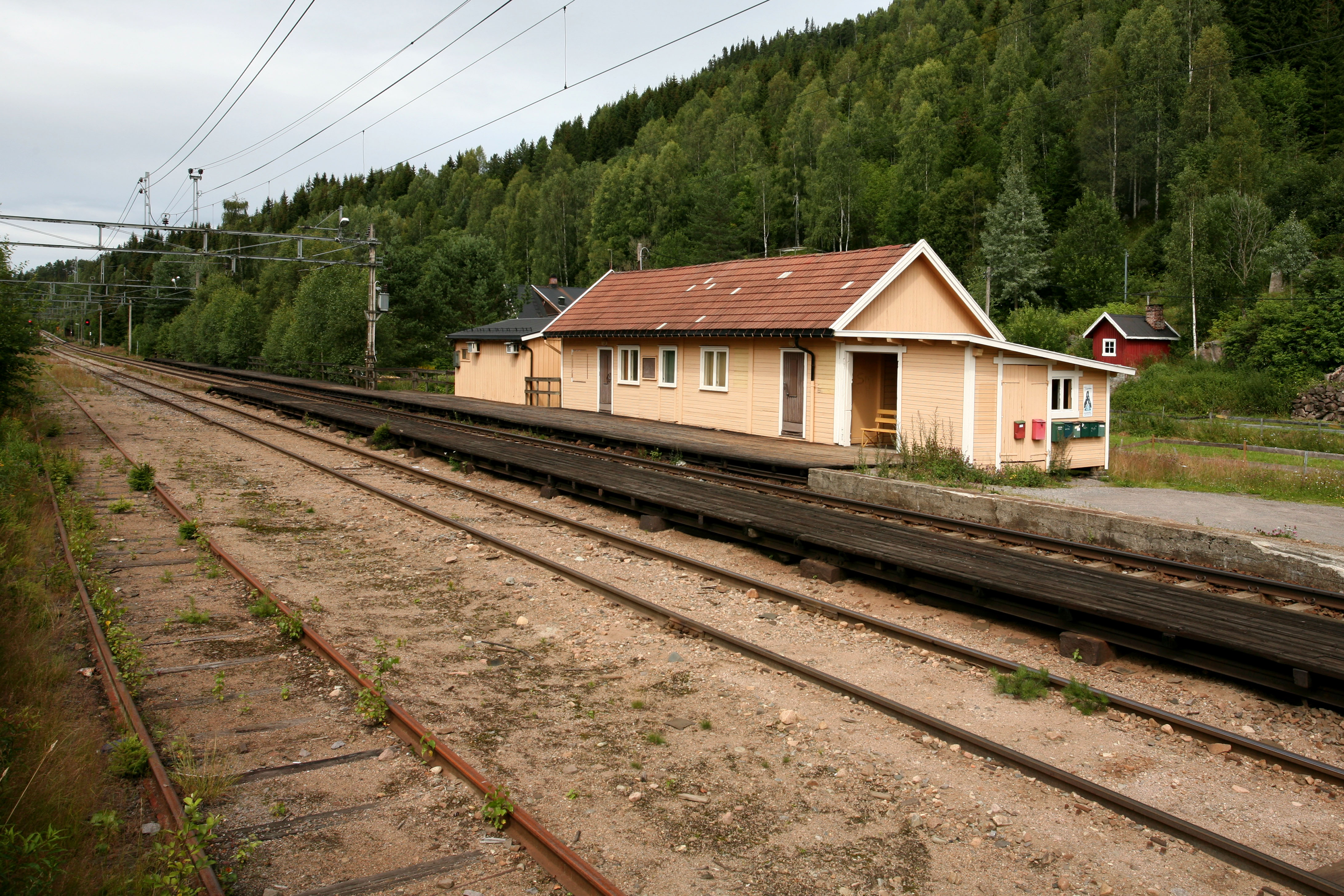 Picture of Bjørgeseter Railway Station (Norway)